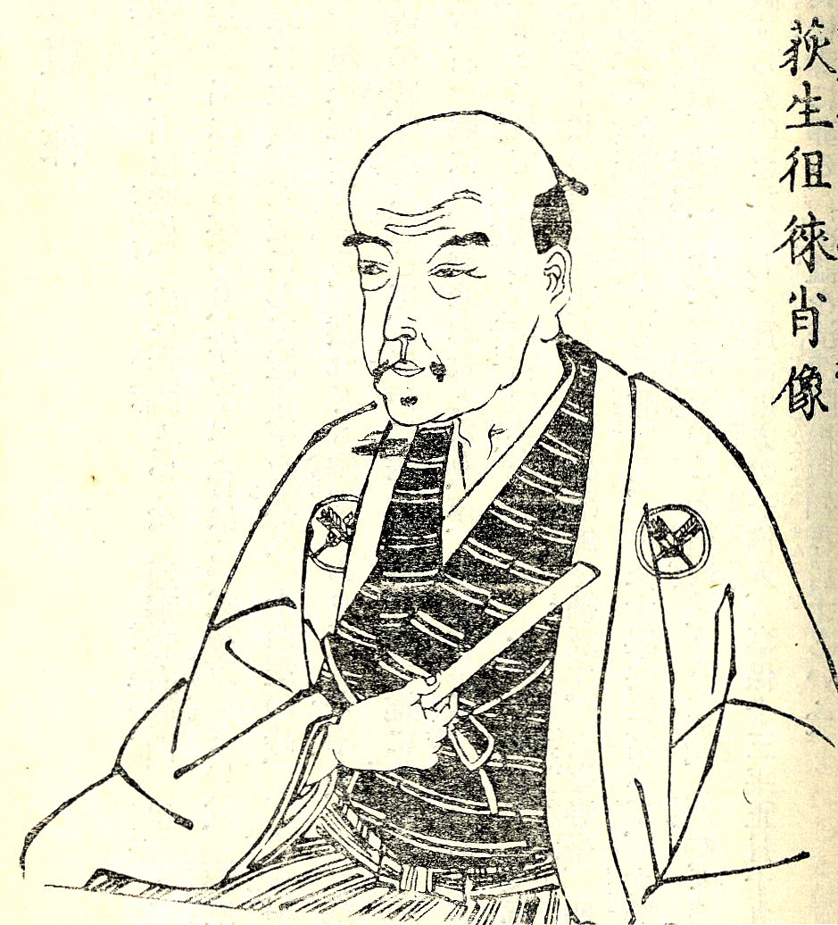 Ogyuh Sorai (荻生 徂徠), also known by the pen name Butsu Sorai, was a Japanese Confucian philosopher.